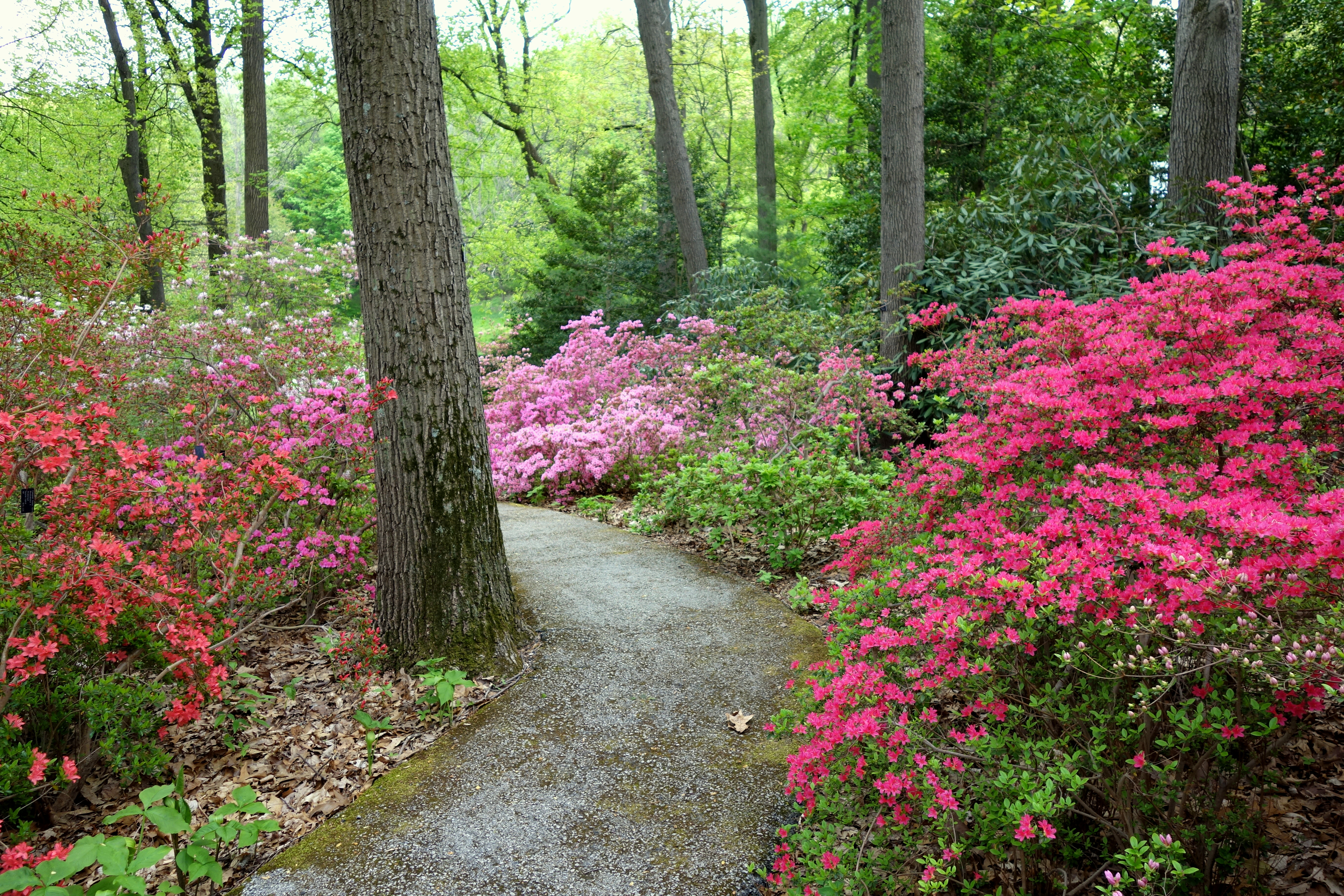 Jenkins Arboretum, 631 Berwyn Baptist Road, Devon, Pennsylvania, USA.